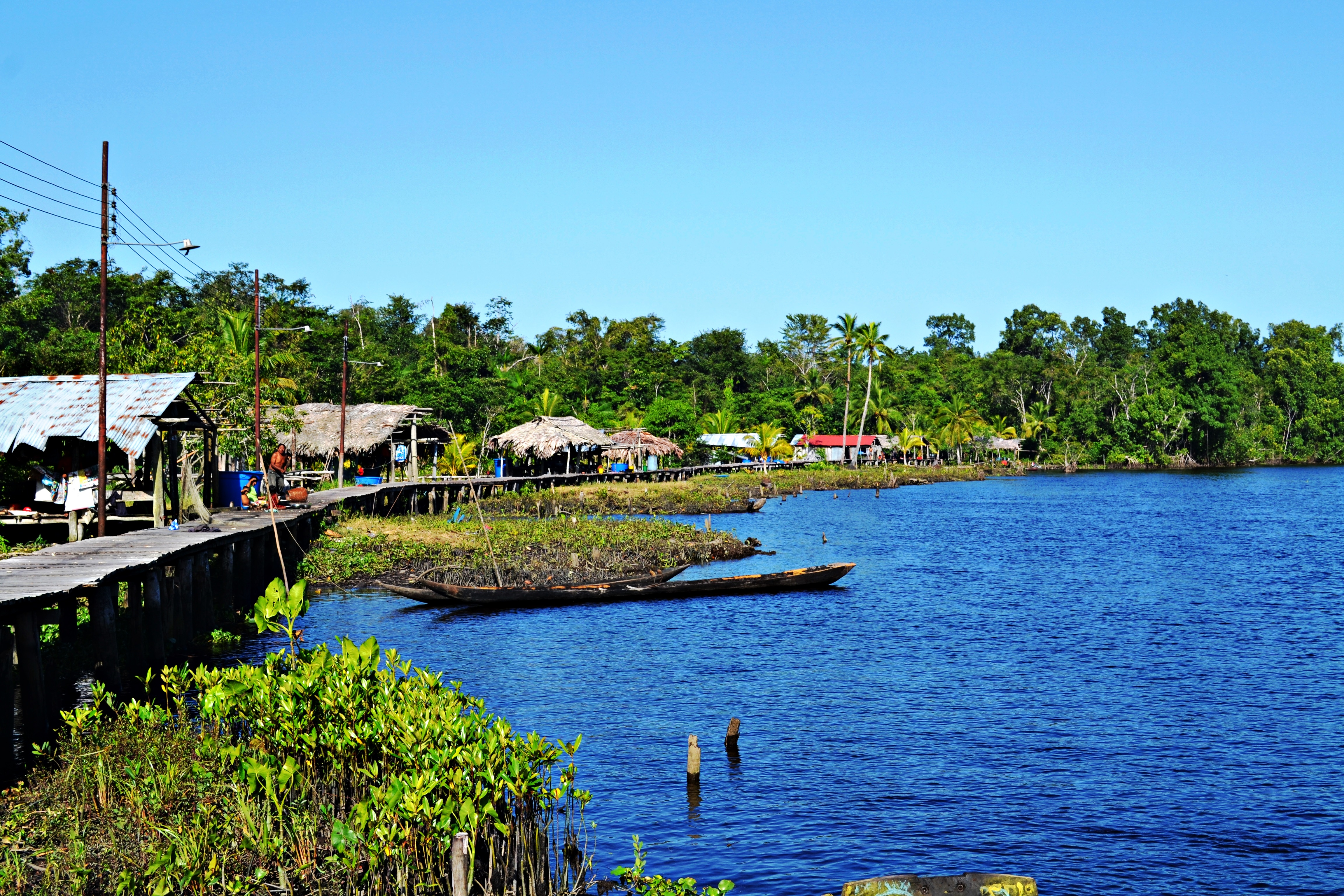 A great trip